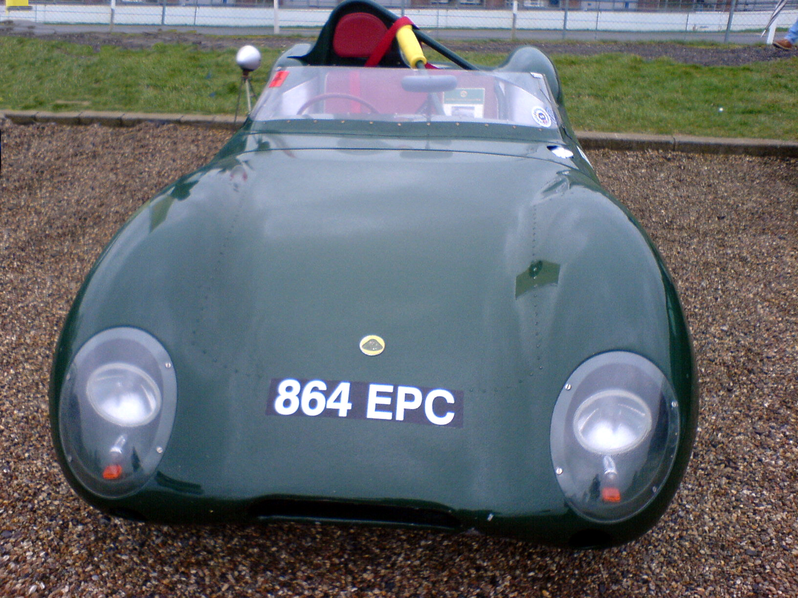 Lotus Eleven (11) at the Brands Hatch Lotus Celebration 2007